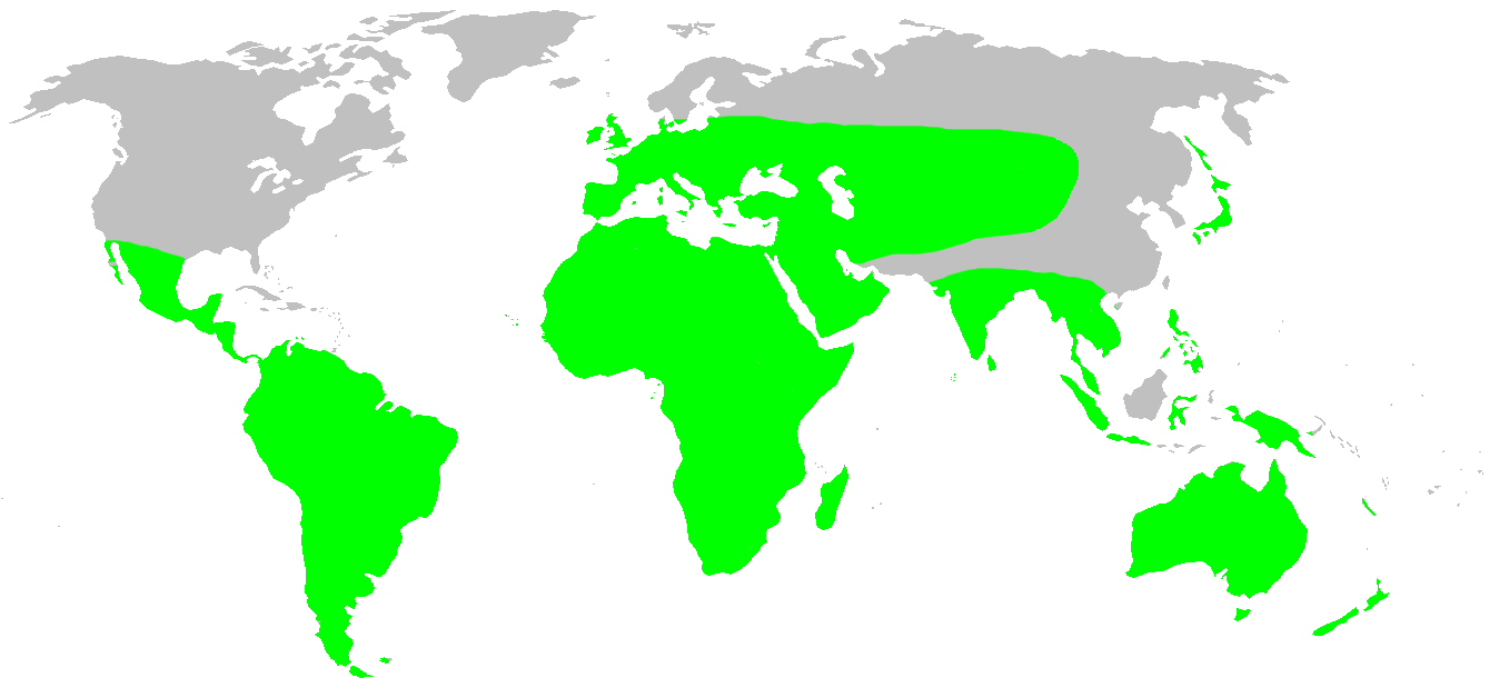 Zodariidae habitat distribution, drawn after Platnick: World Spider Catalog 7.0. This is not at all a precise rendering of the distribution! If you have better information, please replace this map, or send me the info, and i will redraw it.